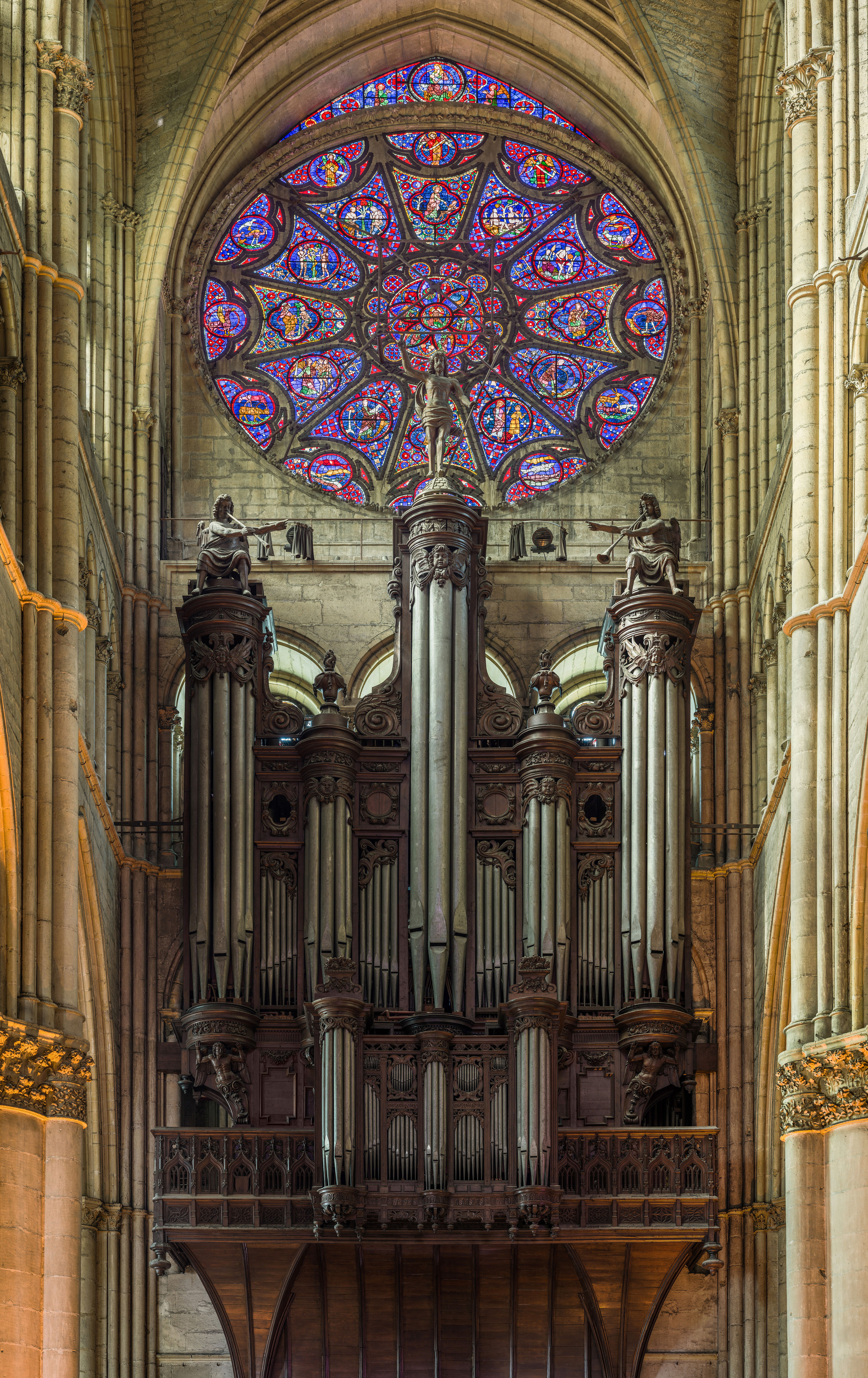 The organ and north transept window of Reims Cathedral, Champagne-Ardenne, France.